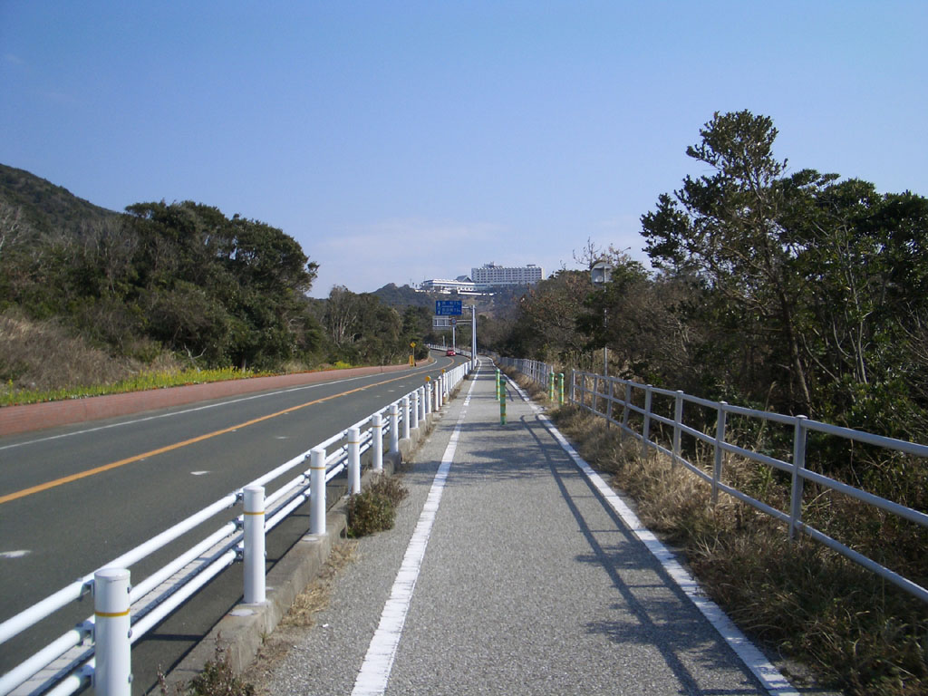 Aichi prefectural road 497, Atsumi-Toyohashi Cycling Road (Irago T, Tahara, Aichi)